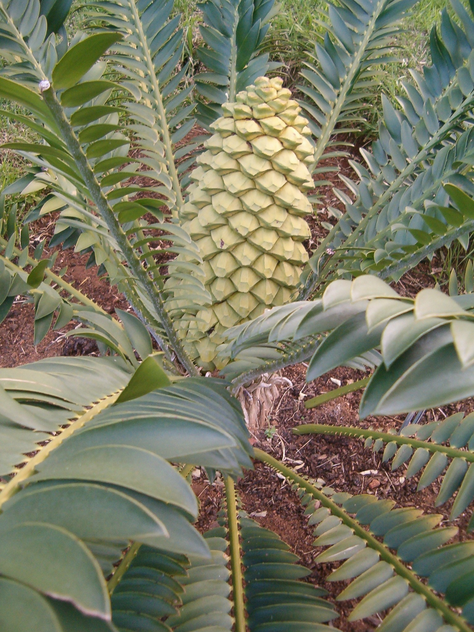 At Kirstenbosch National Botanical Gardens Genus: Encephalartos